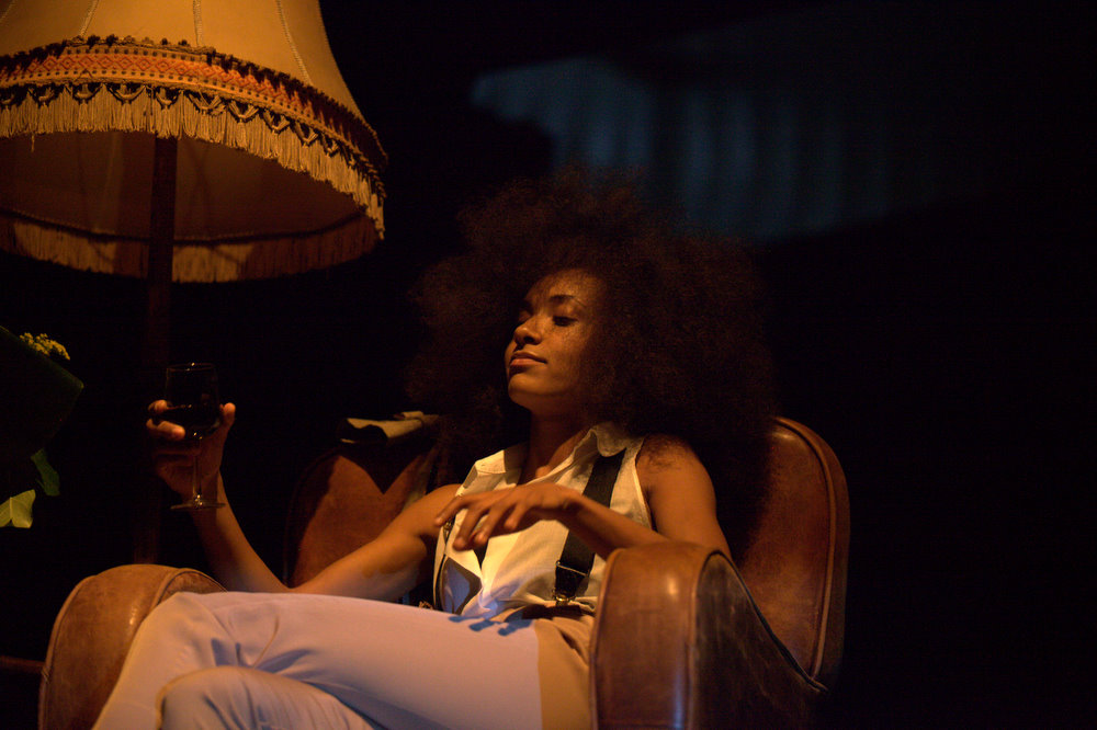 Esperanza Spalding (sitting)